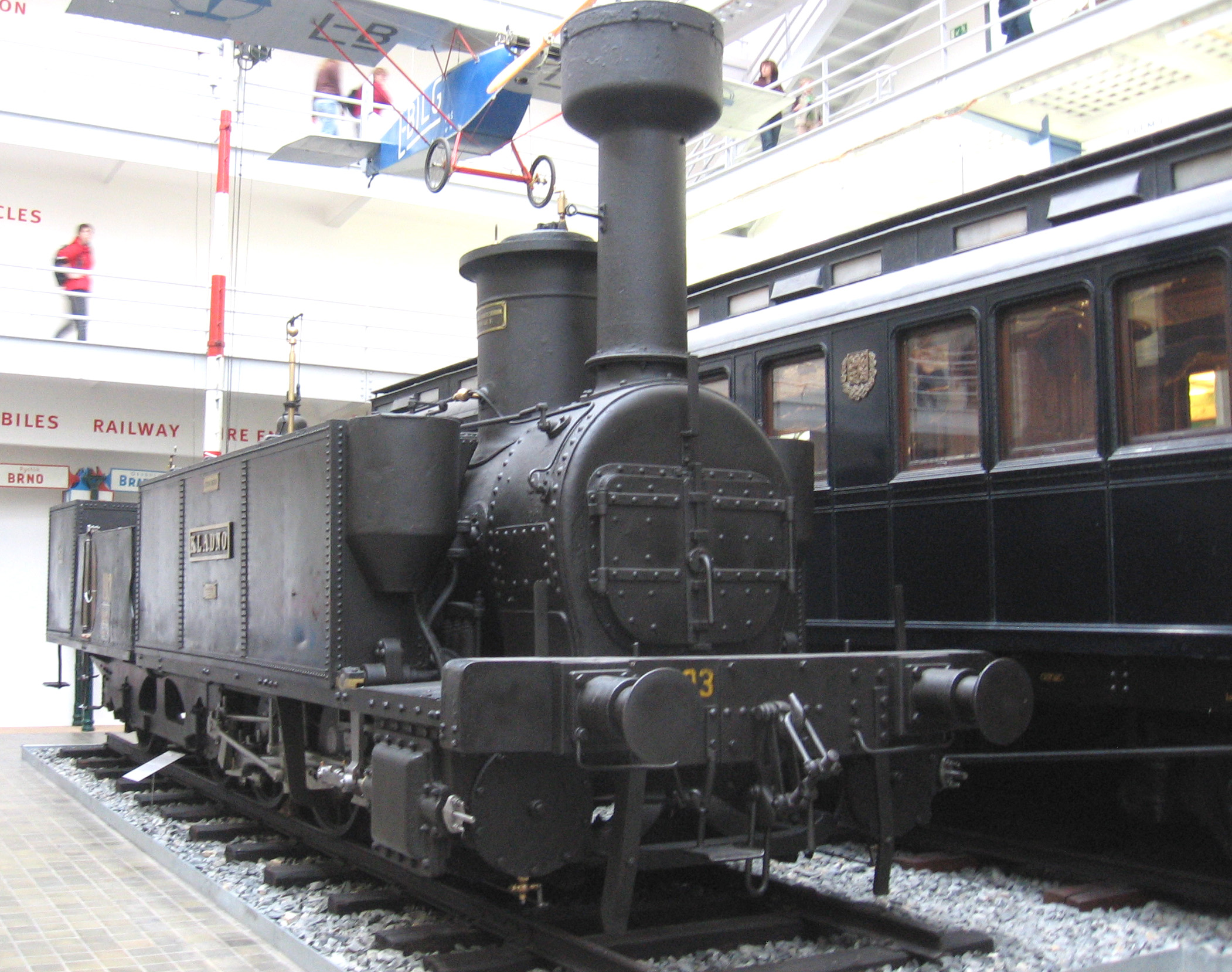 Locomotive BEB Class I Kladno in National technicak museum Prague